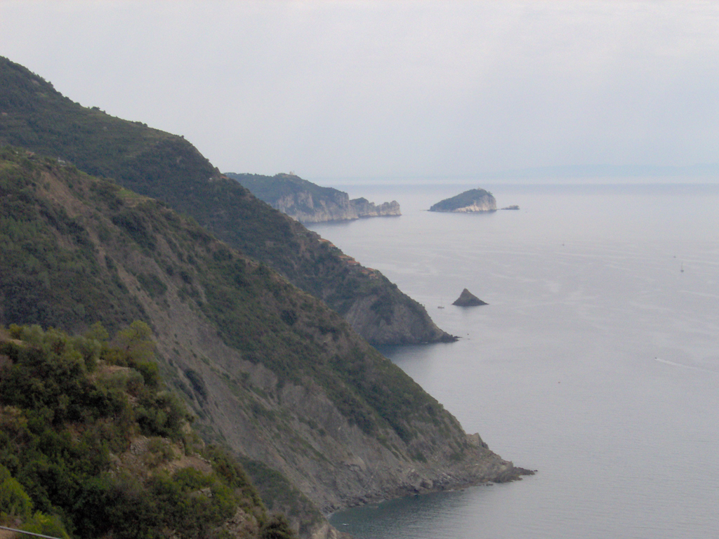 Western coast of Porto Venere with rock Scoglio Ferale (near Porto Venere), islands Tino and little Tinetto.